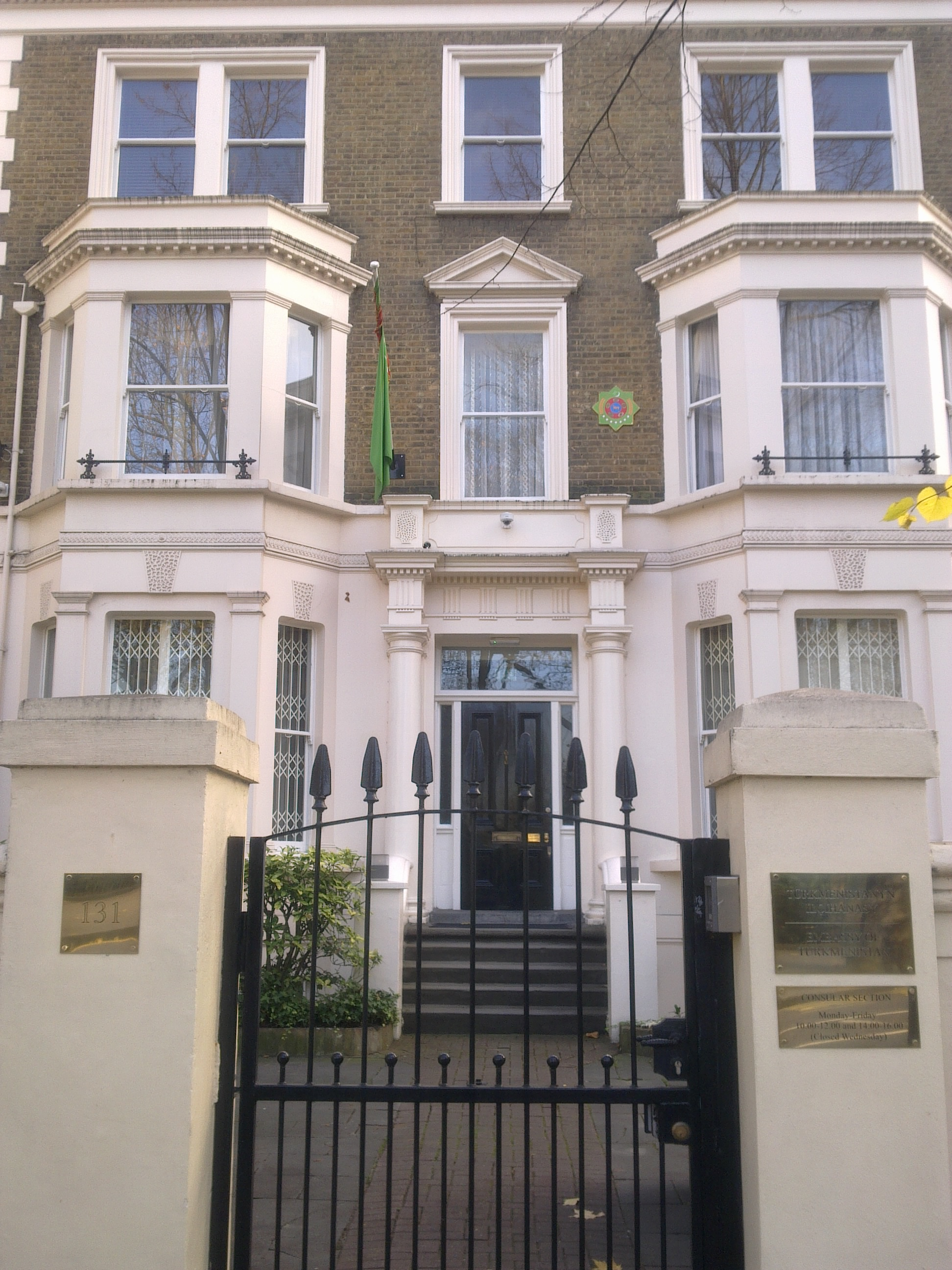 Embassy of Turkmenistan in London 1